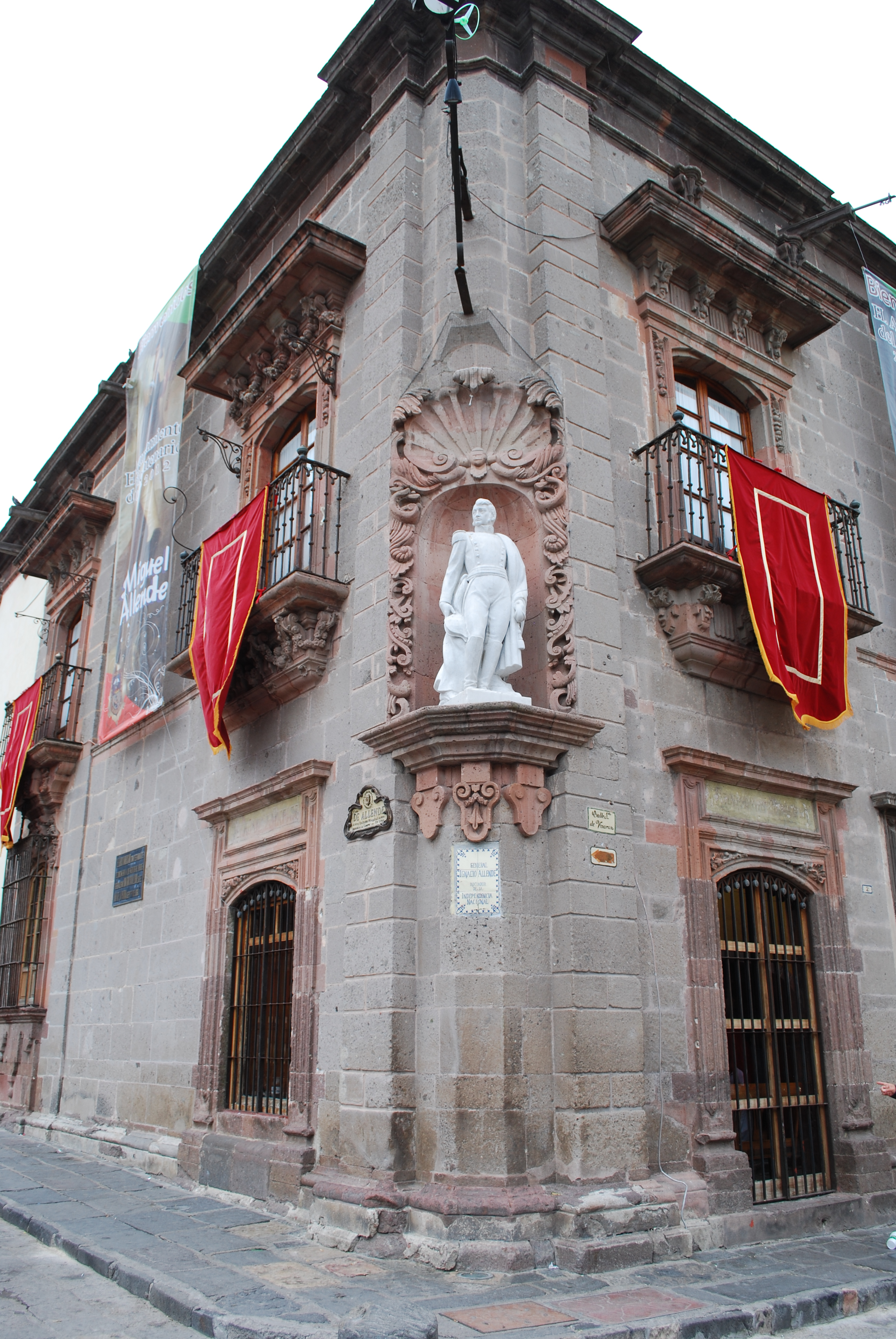 Corner of Allende House with statue of Ignacio Allende, in San Miguel de Allende, Guanajuato, Mexico